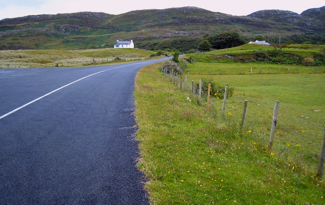 Road south of Portsalon R268 road running south of Portsalon towards Rathmullan.